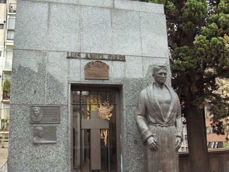 Luis Angel Firpo vault in the Cemetery of Recoleta, where his rests were buried.